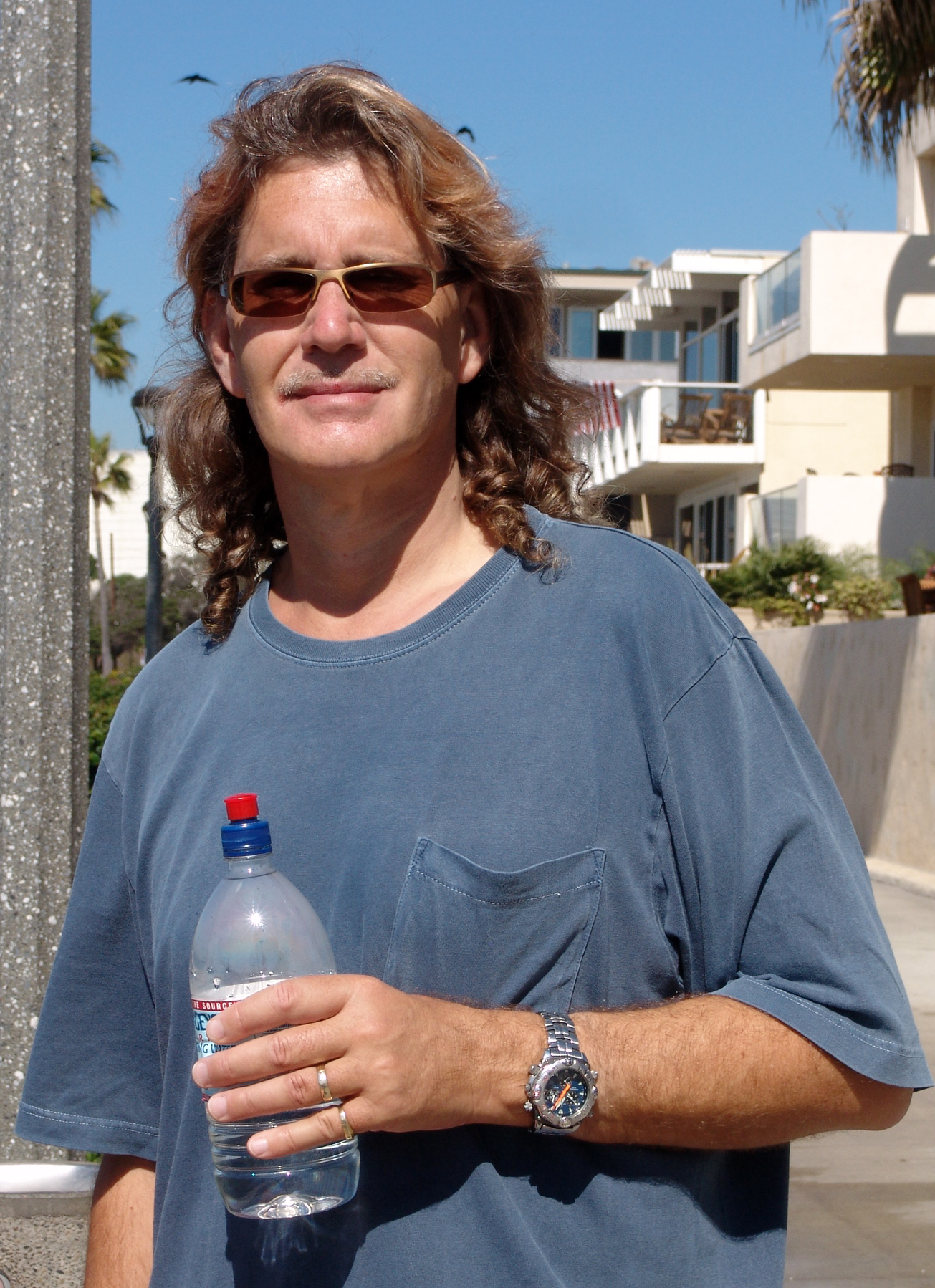 Shamall member Norbert Krueler, progressive rock musician from Germany